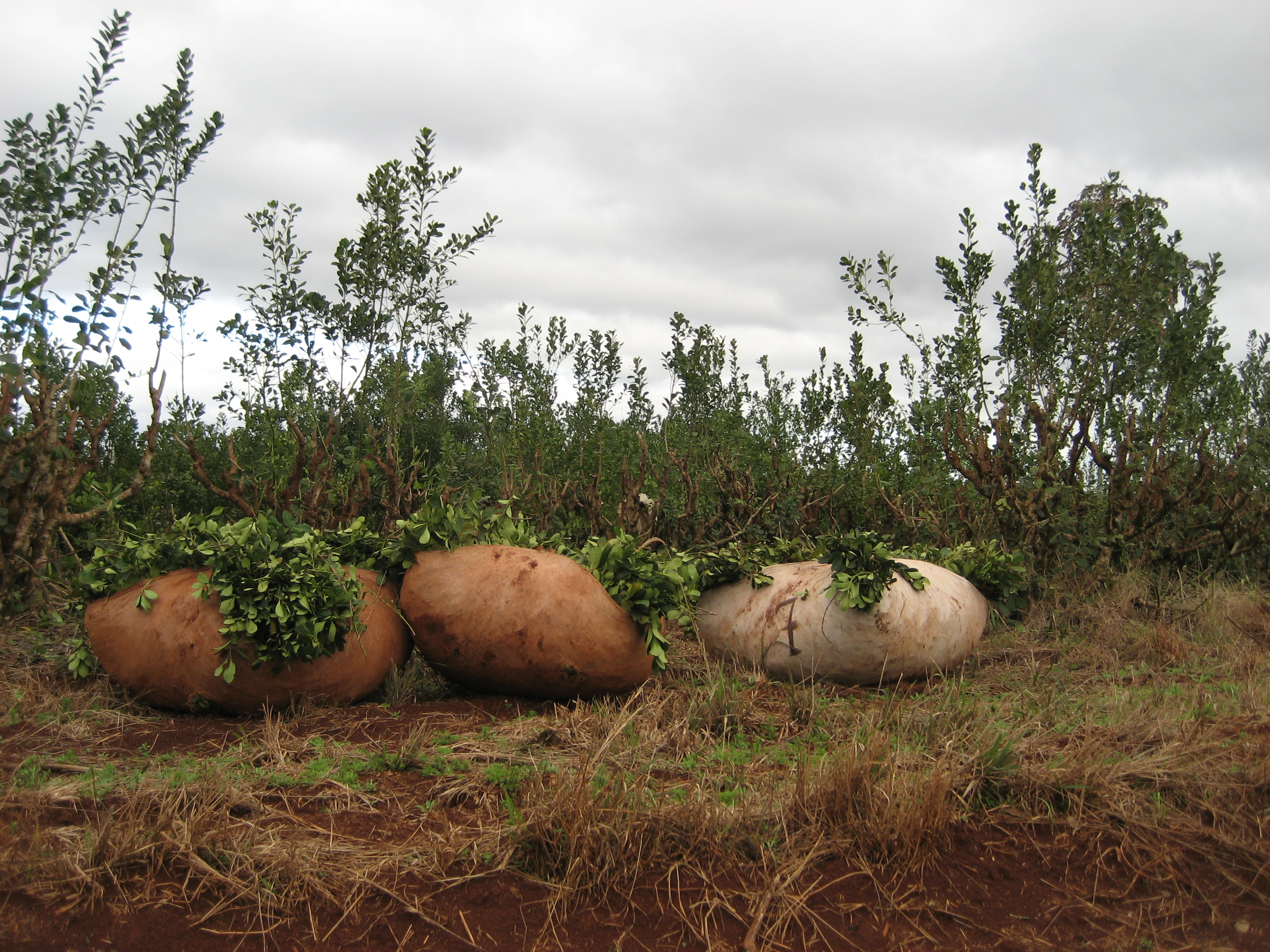 bundles of yerba mate, near Guaraní and Oberá, Misiones, Argentina